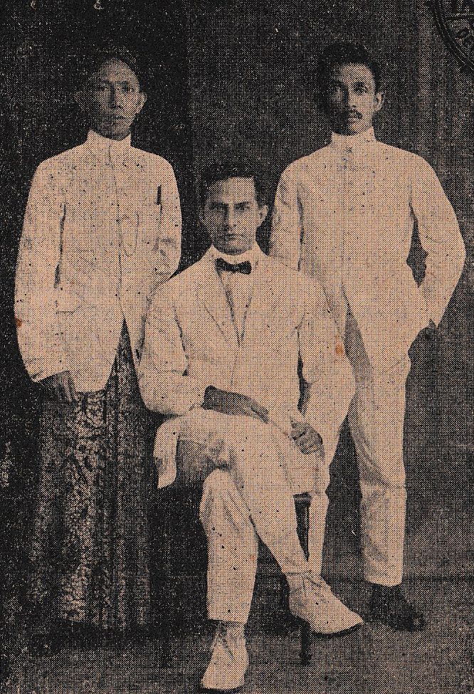 Ernest Douwes Dekker, Tjipto Mangunkusumo, and Suryadi Suryaningrat (Ki Hadjar Dewantoro)